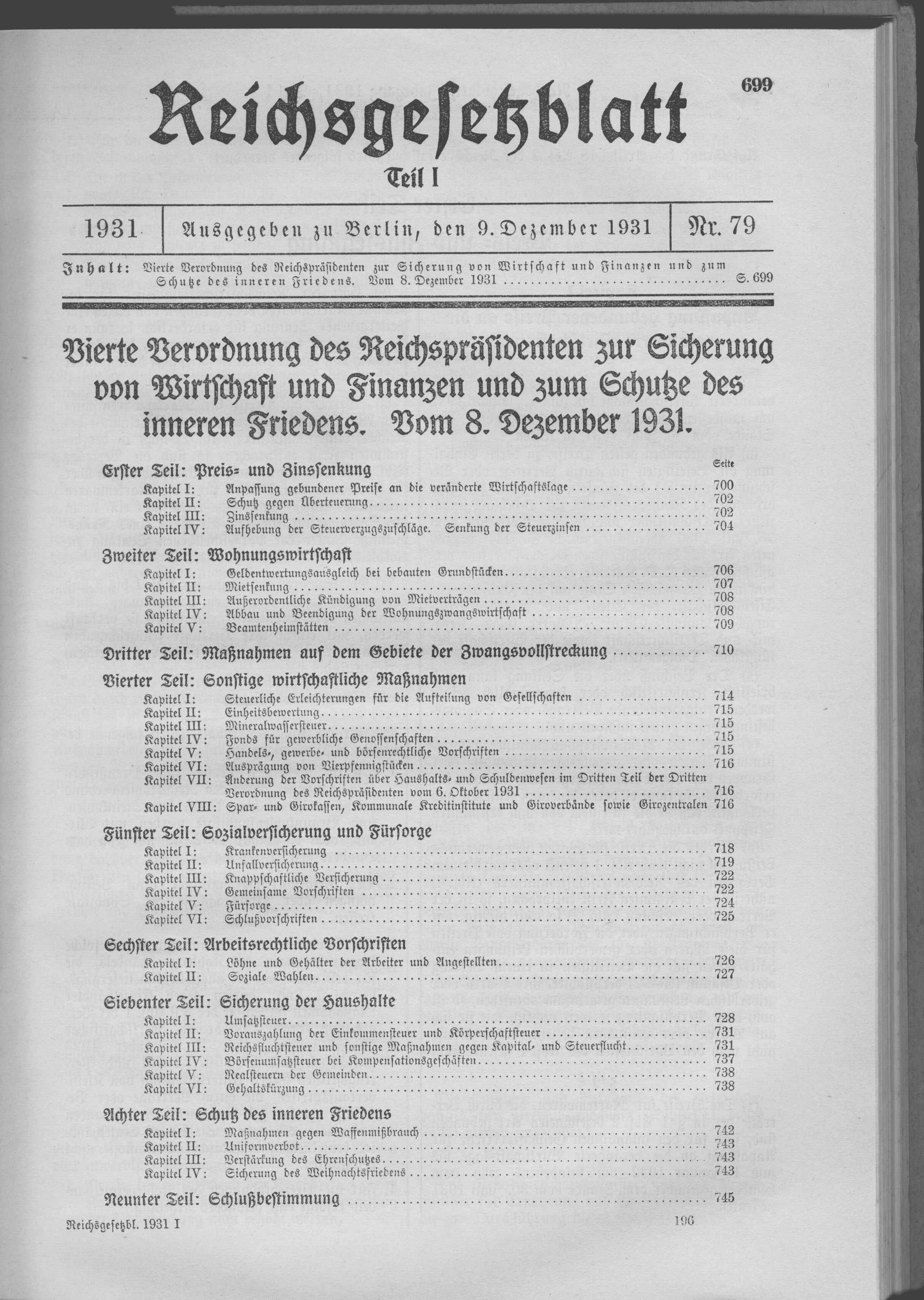 Scan from the Imperial Law Gazette of Germany, 1931, part 1